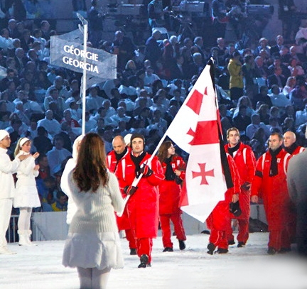 In perhaps the most emotional moment of the Opening Ceremony of the 2010 Winter Olympics, the crowd rises to give the Georgian athletes, led by Alpine skier Iason Abramashvili, a standing ovation following the tragic death of 21-year-old luge athlete Nodar Kumaritashvili earlier in the day. The Georgian flag is decorated with a black ribbon.